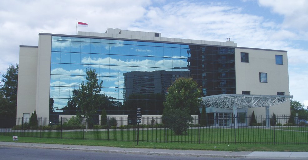 The Embassy of Indonesia in Ottawa, Canada. Taken by SimonP